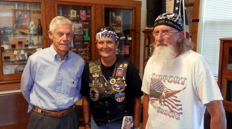 Retired Major General John V. Cox (USMC) and members of the Missoui Patriot Guard Riders followng a speaking engagment in Macon, Missouri in August, 2013.